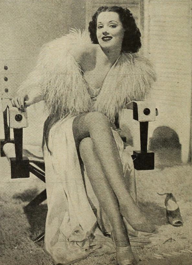 American actress, Rebel Randall, (1922-2010) from Modern Screen, 1940